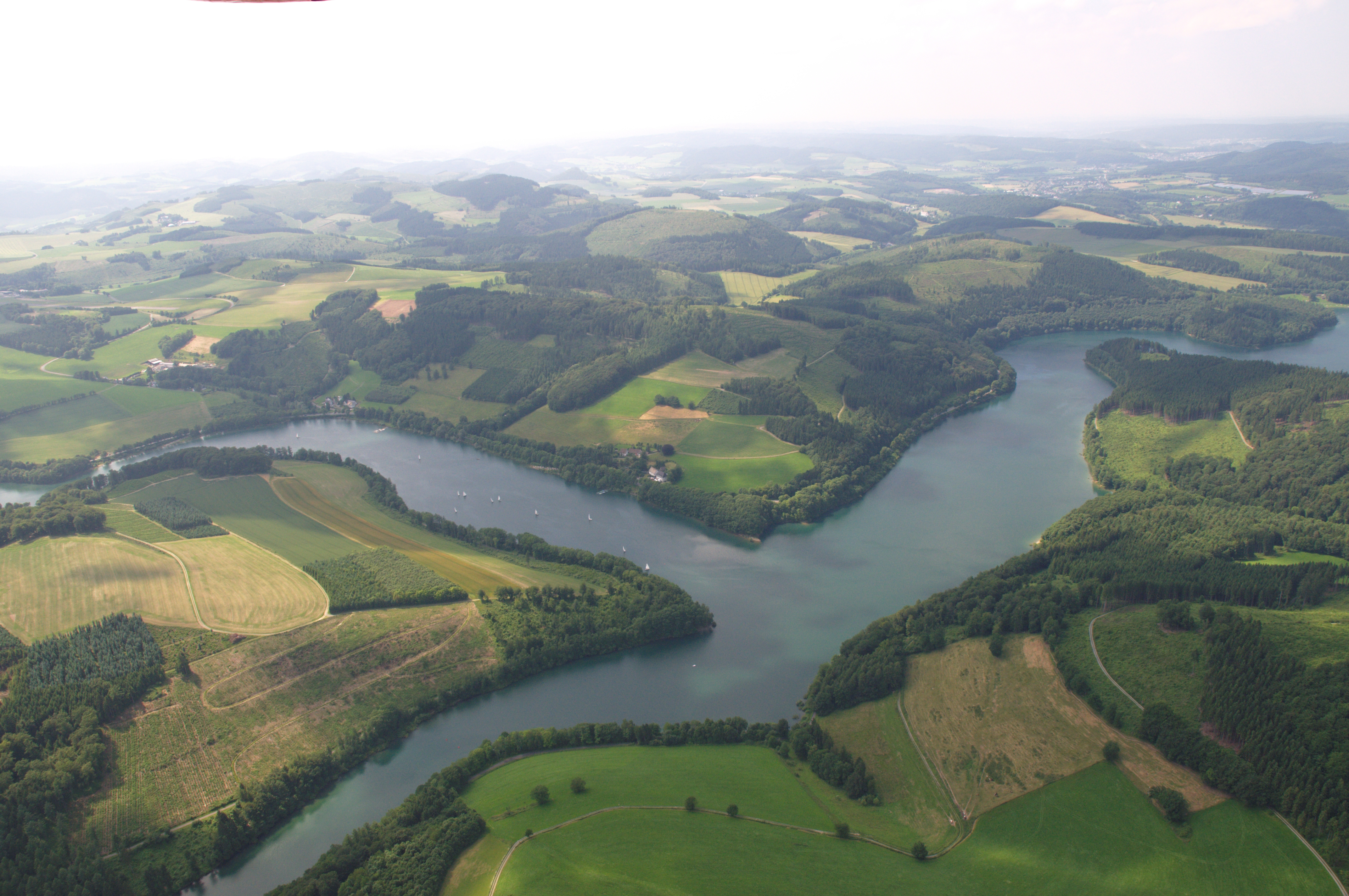 Fotoflug Sauerland-Ost, Hennesee The making of this document was supported by the Community-Budget of Wikimedia Germany.